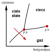 Sublimation (phase transition)